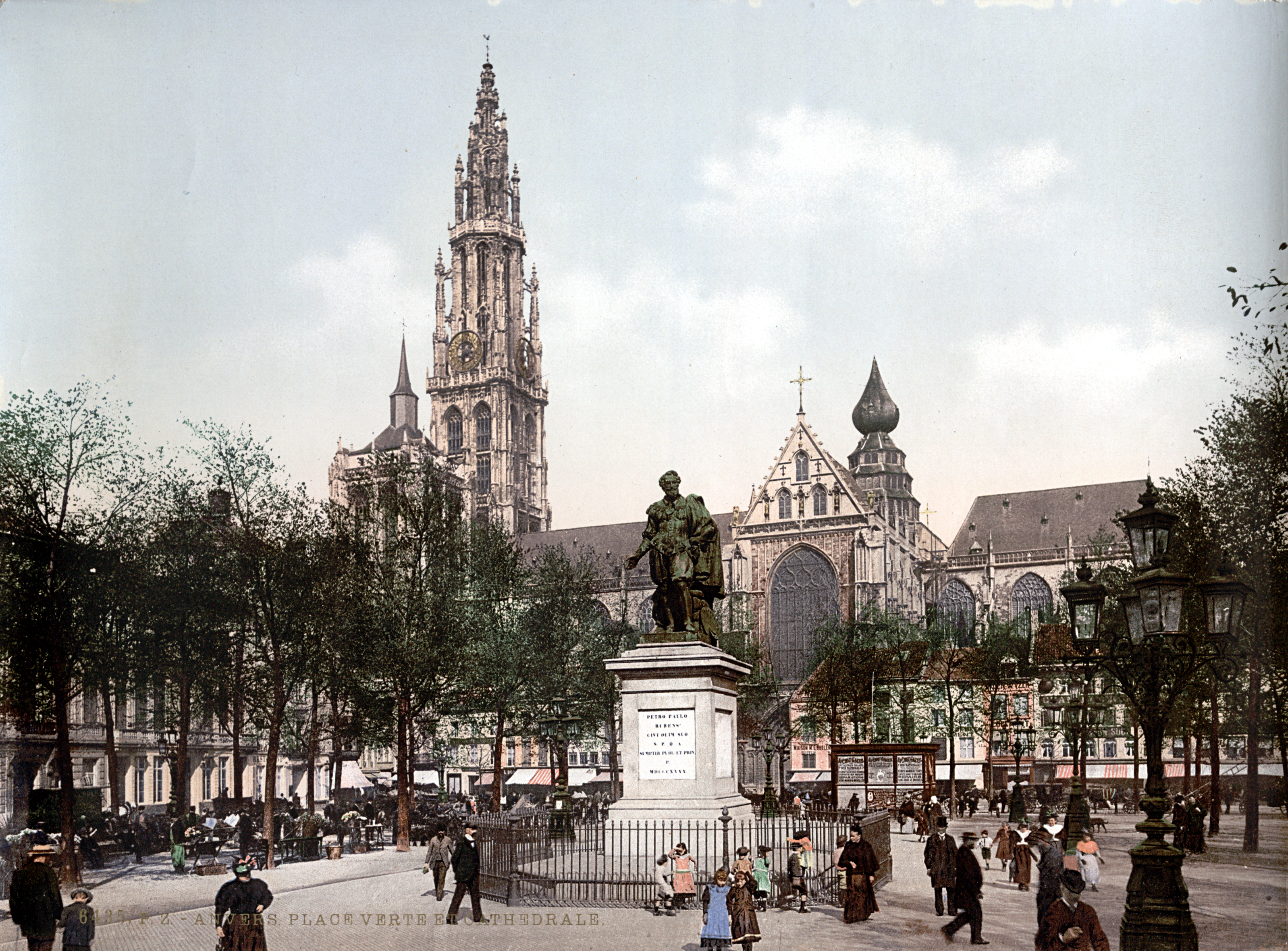 Groenplaats (Green Square) in Antwerp (ca. 1890-1900). Foreground: statue of Peter Paul Rubens. Background: Cathedral of Our Lady.